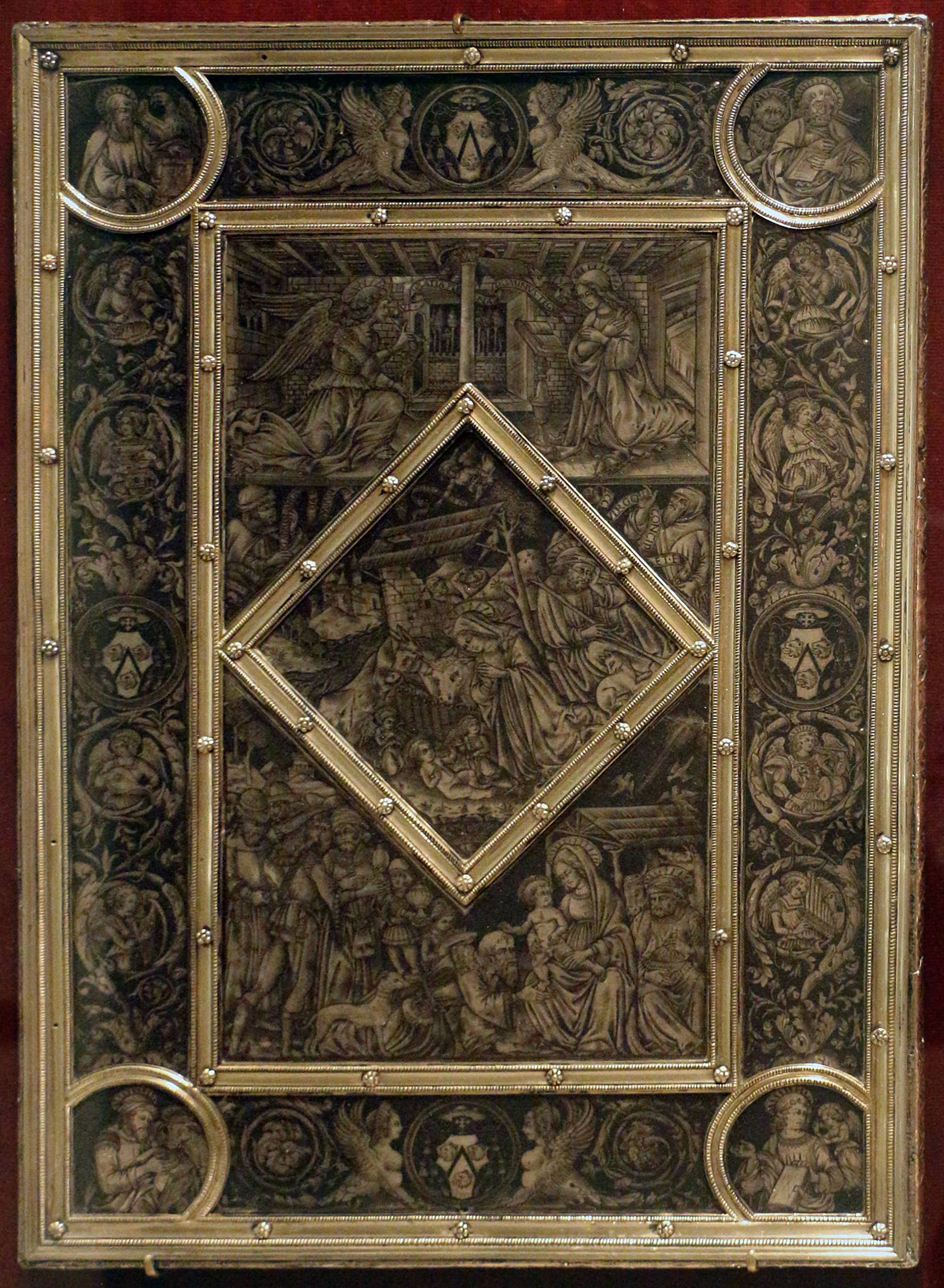 Metalware in the Cleveland Museum of Art